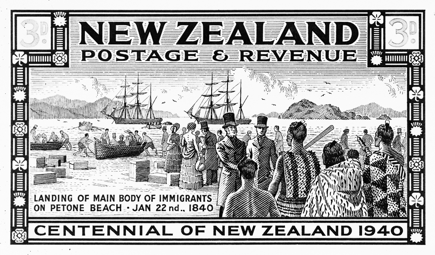 On 22 January 1840, the first of the New Zealand Company’s fleet of six immigrant ships, the Aurora, arrived in Pito-one (Petone), marking the founding of the settlement that would become known as Wellington. They had bet William Hobson to Aotearoa New Zealand by seven days; their efforts of self-government would become the cause of some concern to Hobson as he gathered signatures for te Tiriti o Waitangi. This stamp was designed for the 1940 Centennial of New Zealand as a British Colony, and interperets the NZ Company settlers arriving at Pito-one. It was originally produced in colour, but this version comes from a series of Post & Telegraph Department negatives. Archives Reference: AAME 8106 W5603 Box 291 This record is part of #Waitangi175, celebrating 175 years since the signing of of te Tiriti o Waitangi. You can see other real time tweets on Twitter ( or explore the Waitangi 175 album here on Flickr. Material from Archives New Zealand